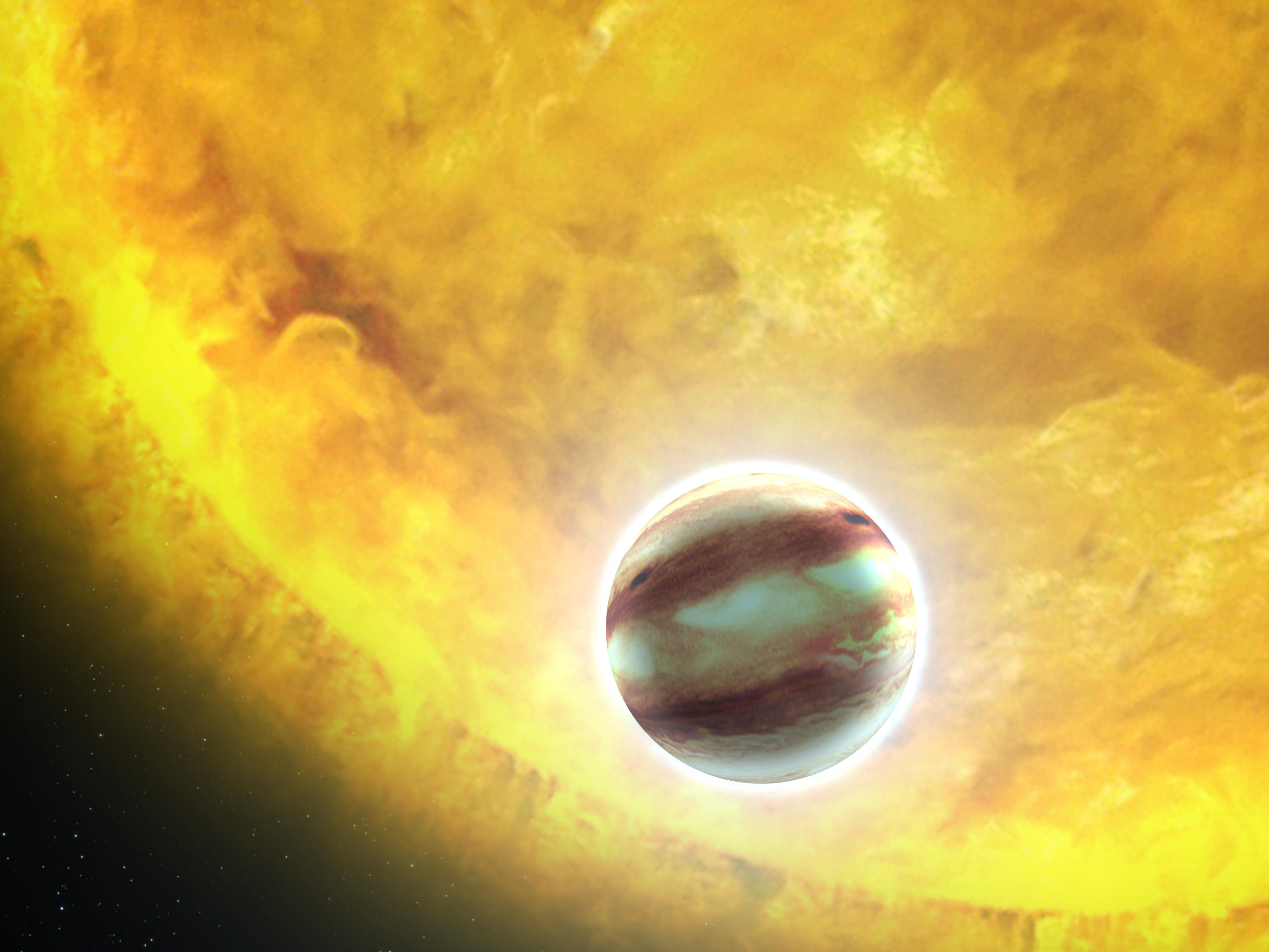 This is an artist's concept of that planet, HAT-P-7b. It is a "hot Jupiter" class planet orbiting a star that is much hotter than our sun. Hubble Space Telescope's millionth science observation was trained on this planet to look for the presence of water vapor and to study the planet's atmospheric structure via spectroscopy. Planets with orbits inclined nearly edge-on to Earth can be observed passing in front of and behind their stars. This allows for the planetary atmospheres to be studied by Hubble's spectrometers. Hubble's unique capabilities allow astronomers to do follow-up observations of exoplanets to characterize the composition and structure of their atmospheres.